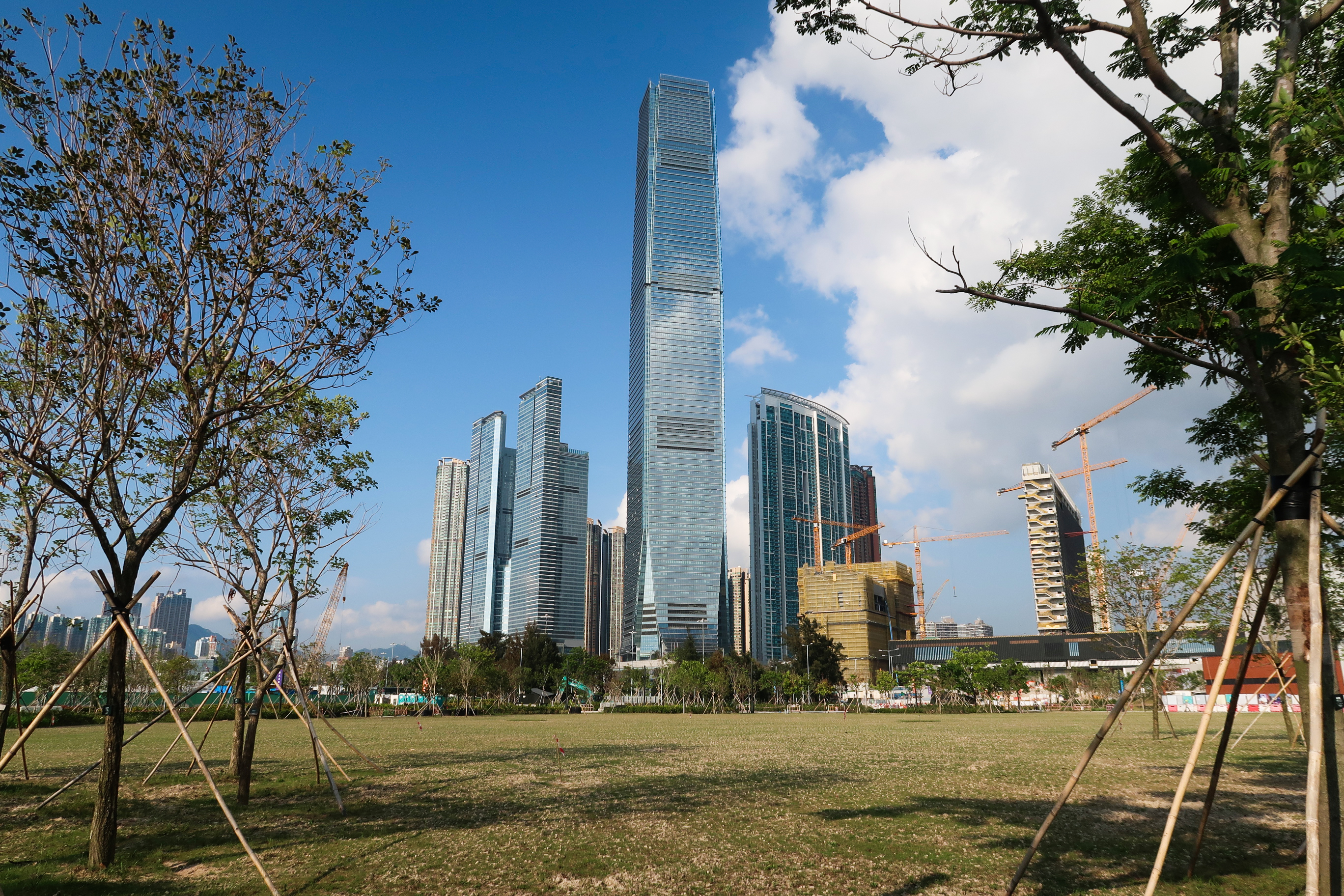 WKCD Art Park lawn area